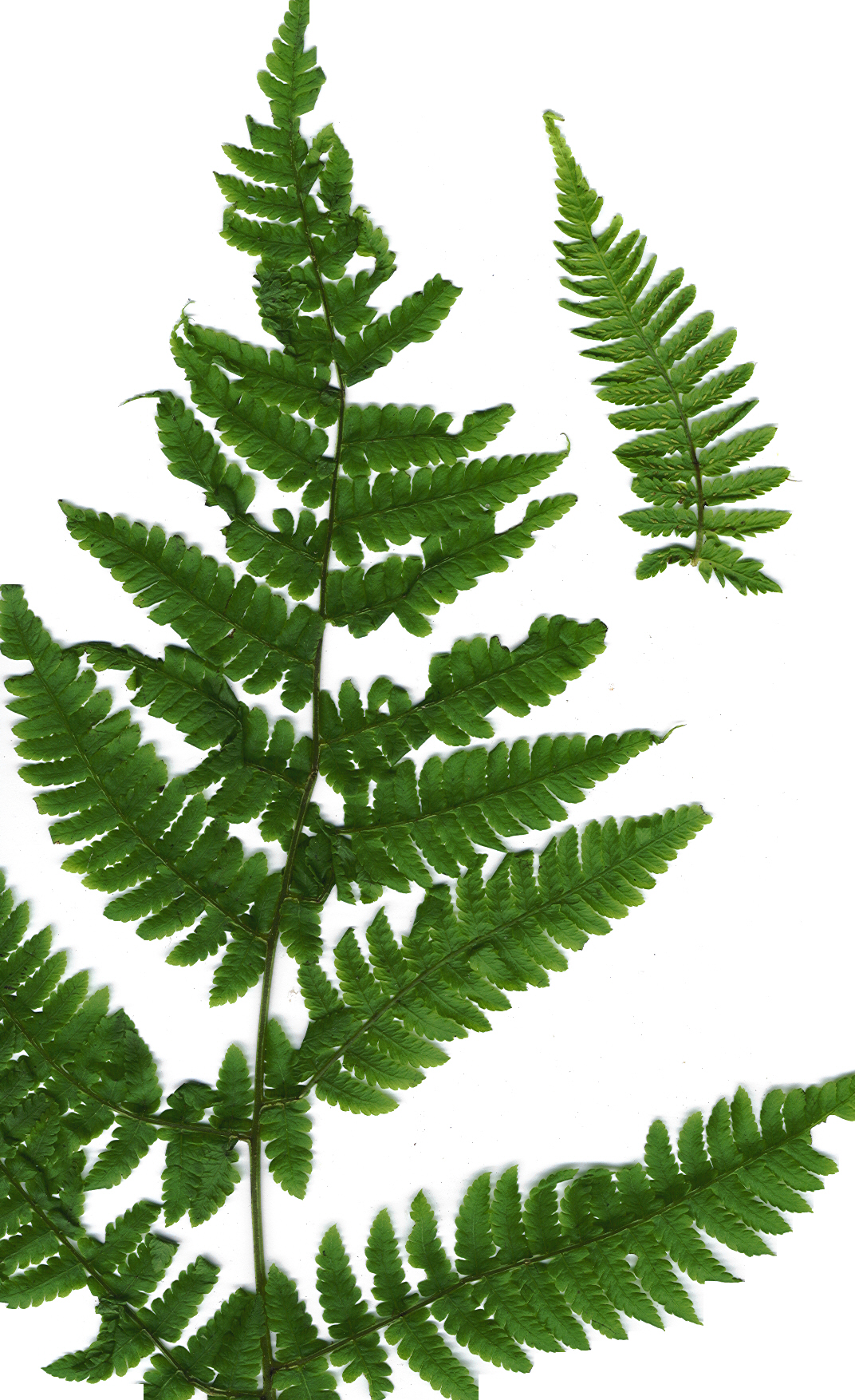 Diplazium sandwichianum (Fronds). Location: Maui, Makawao Forest Reserve